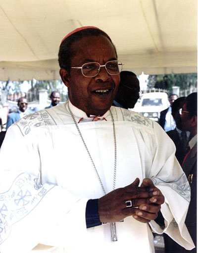 Picture of John Njue, Kenyan Cardinal and catholic archbishop.